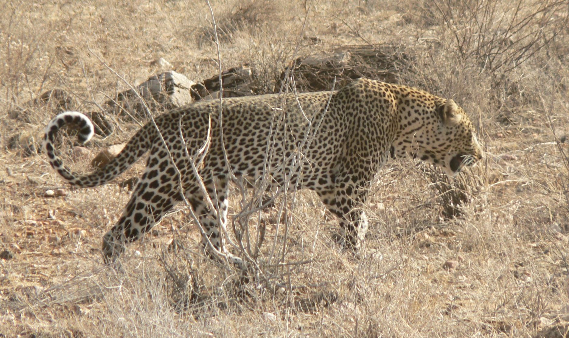 Side view of a male Leopard in Samburu National Reserve, central Kenya